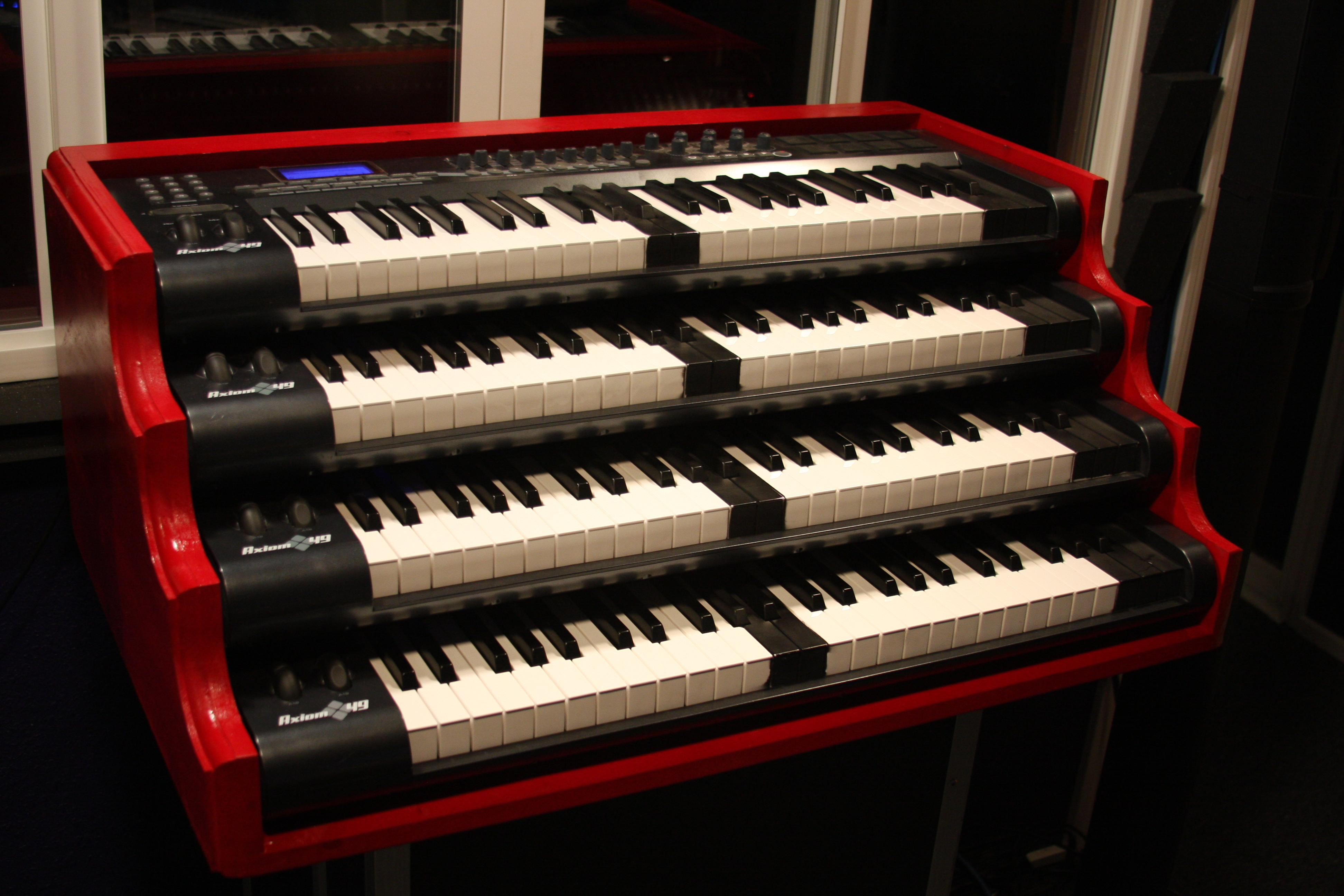 front view of Phase 1 Chordboard STAC prototype